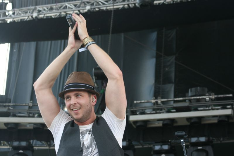 Frontman of OneRepublic Ryan Tedder